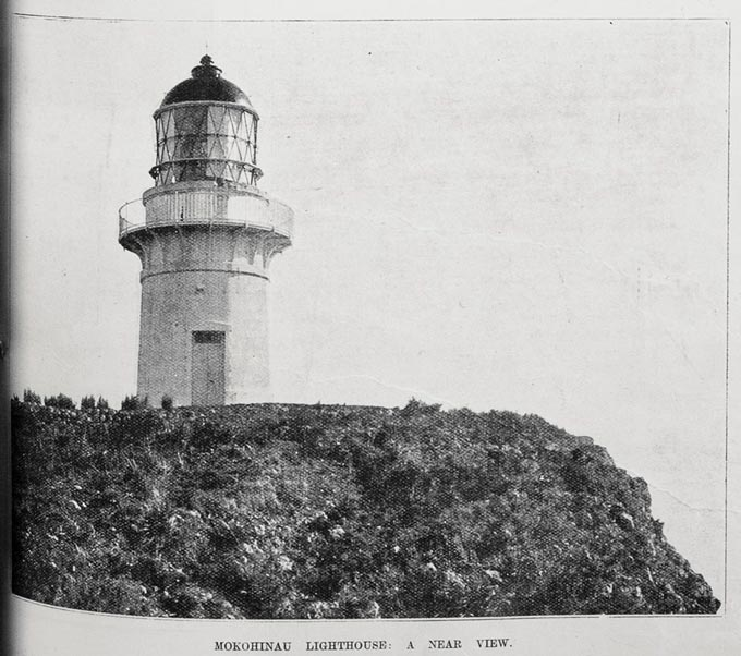 Mokohinau Islands lighthouse 25 September 1902. Showing the Mokohinau lighthouse on the Mokohinau Islands which are situated north of Great Barrier Island and between the Poor Knights, taken during the cruise of the S S Hinemoa